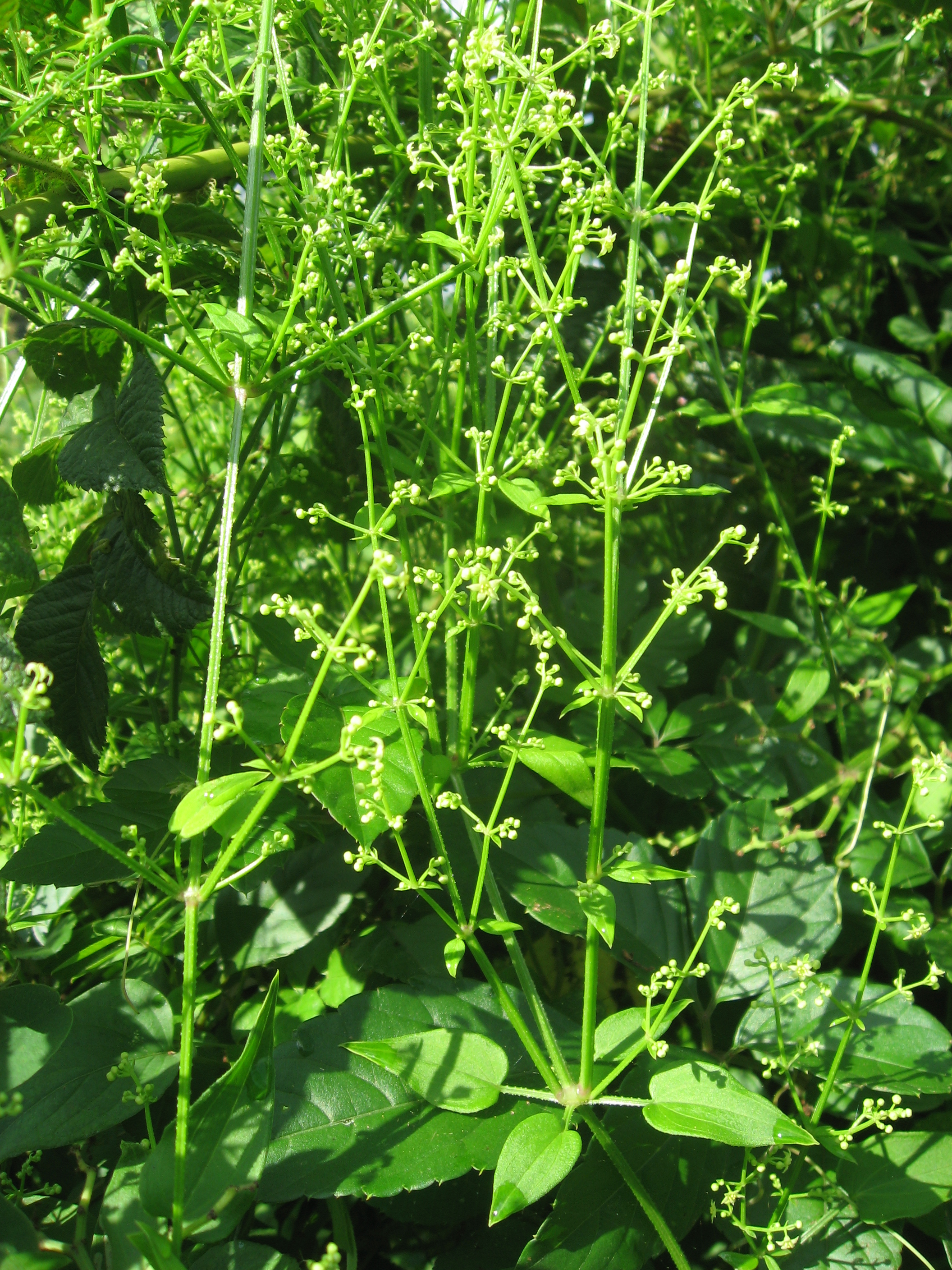 Rubia argyi, Aizu area, Fukushima pref., Japan